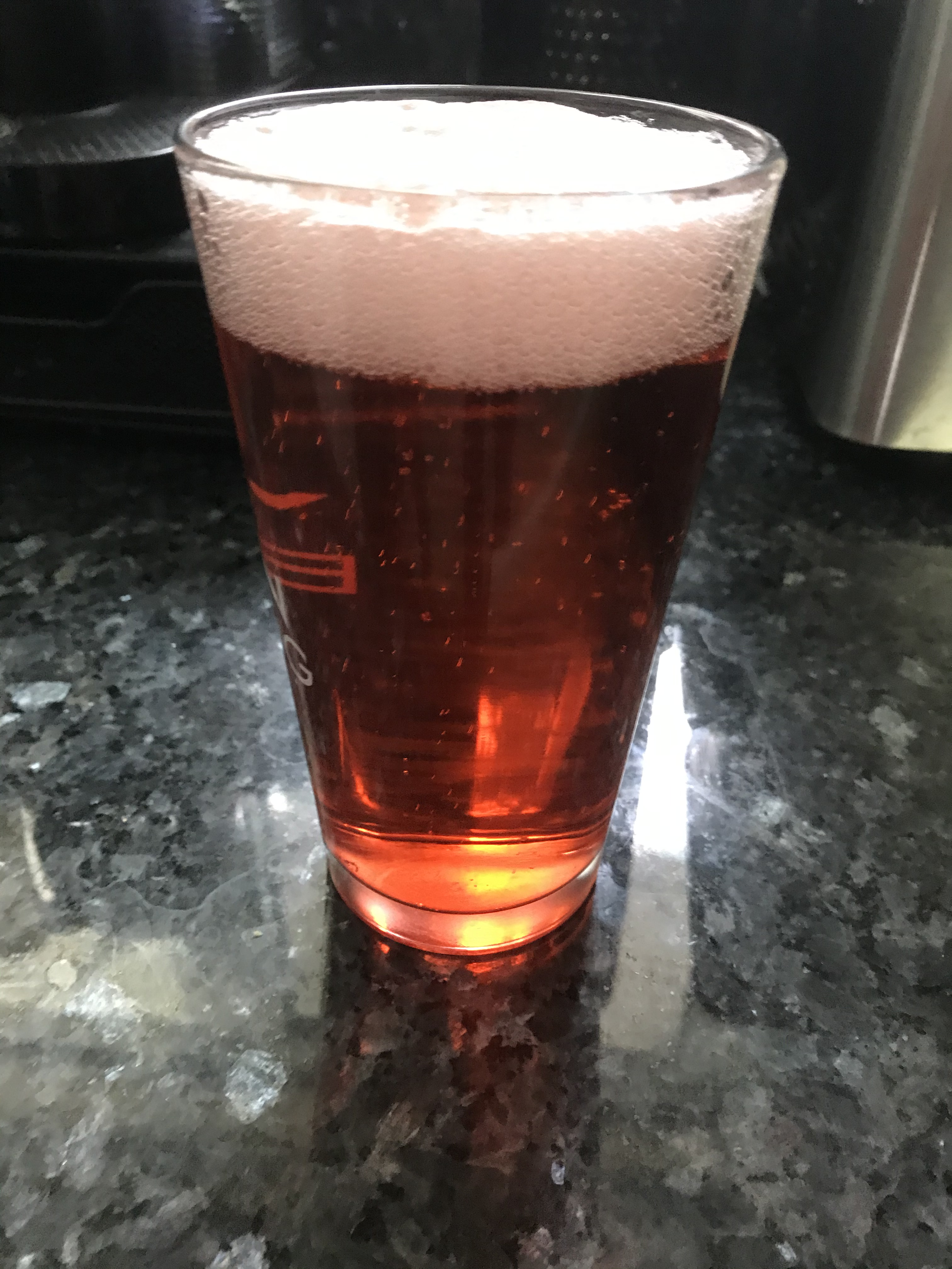 A blend of Light Beer, Ale, Lager or Pilsner mixed with Grenadine